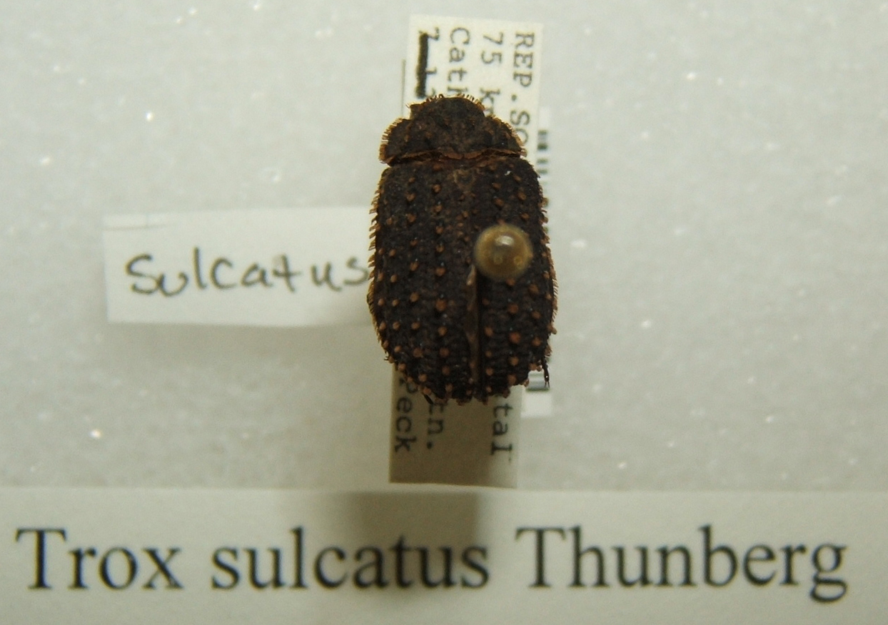 Trox sulcatus adult taken by Shawn Hanrahan at the Texas A&M University Insect Collection in College Station, Texas. Cropped version: Trox sulcatus sjh.cropped.jpg